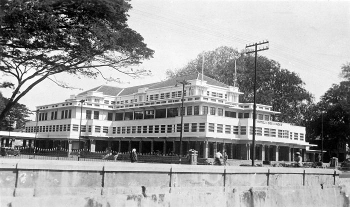 Hotel des Indes, Batavia